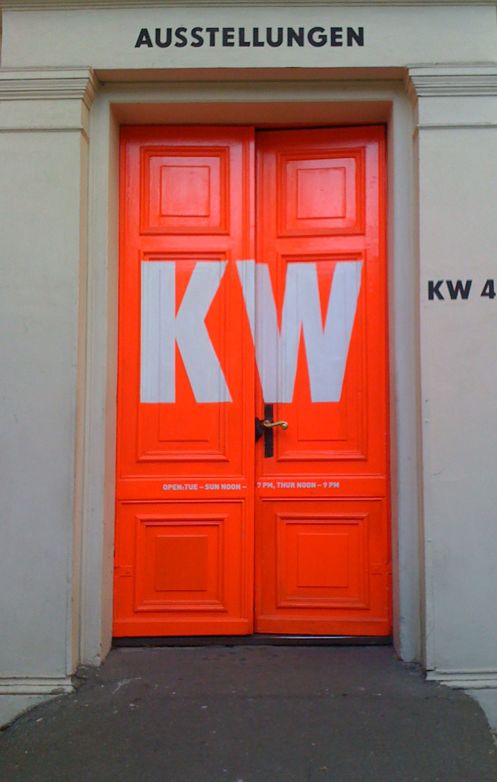 Door to exhibition area of art gallery Kunst-Werke (KW) in Berlin, taken on November 25, 2009. The door shows the gallery logo.